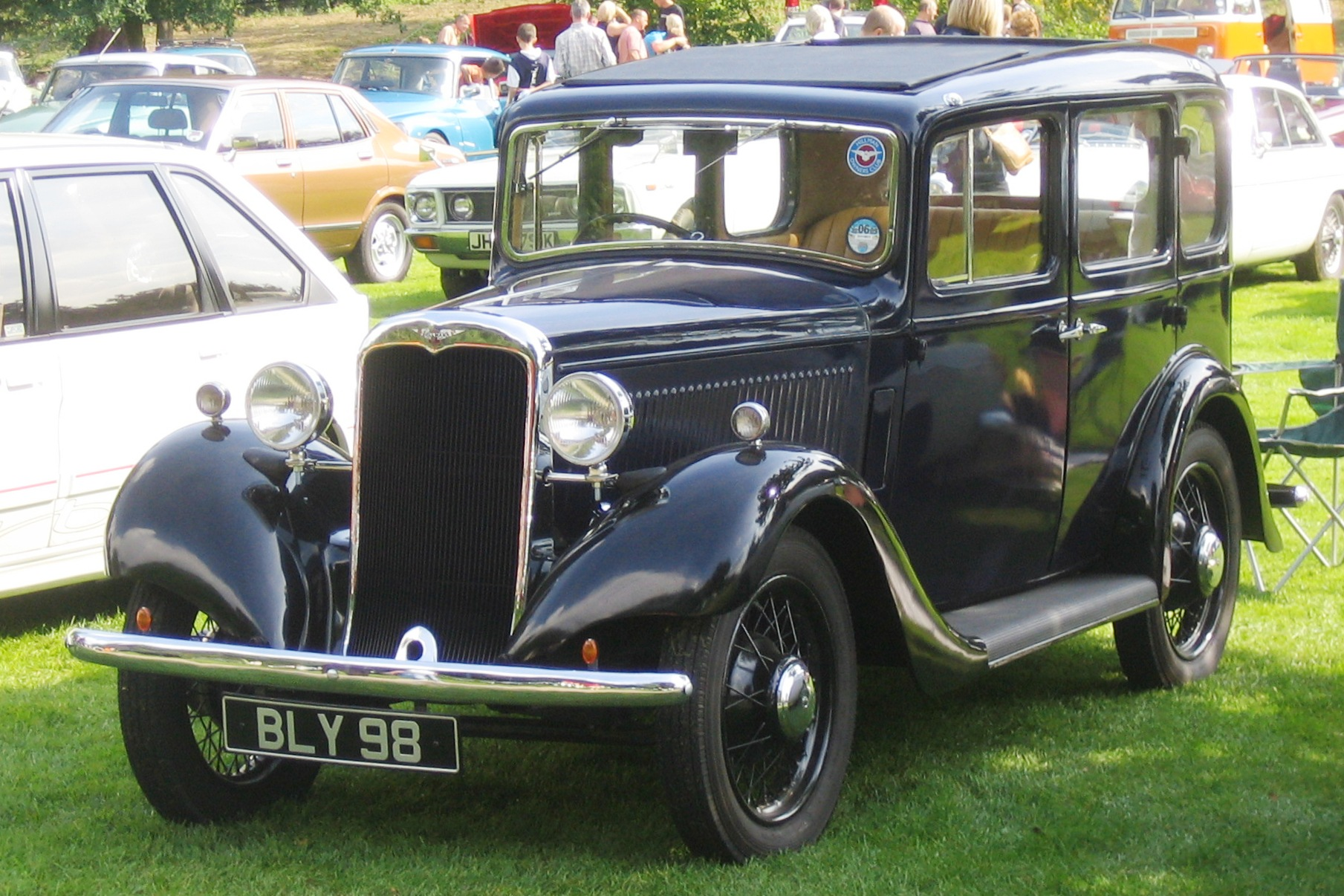 Hillman Minx reportedly manufactured 1935